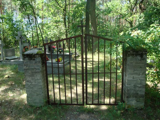 Mariavit Church cemetery in Pogorzel (Poland)